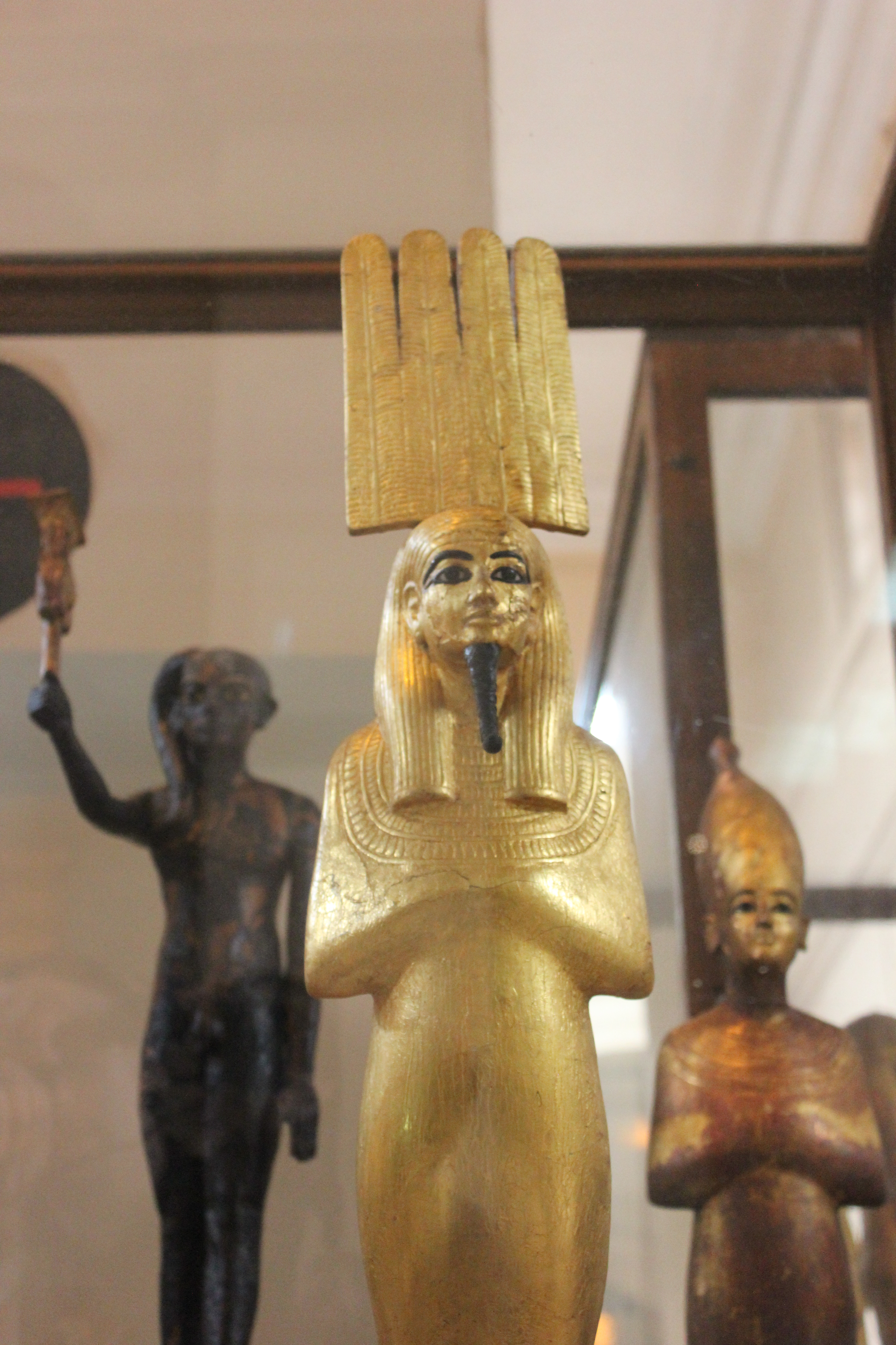 Egyptian Museum in Cairo, Egypt.)